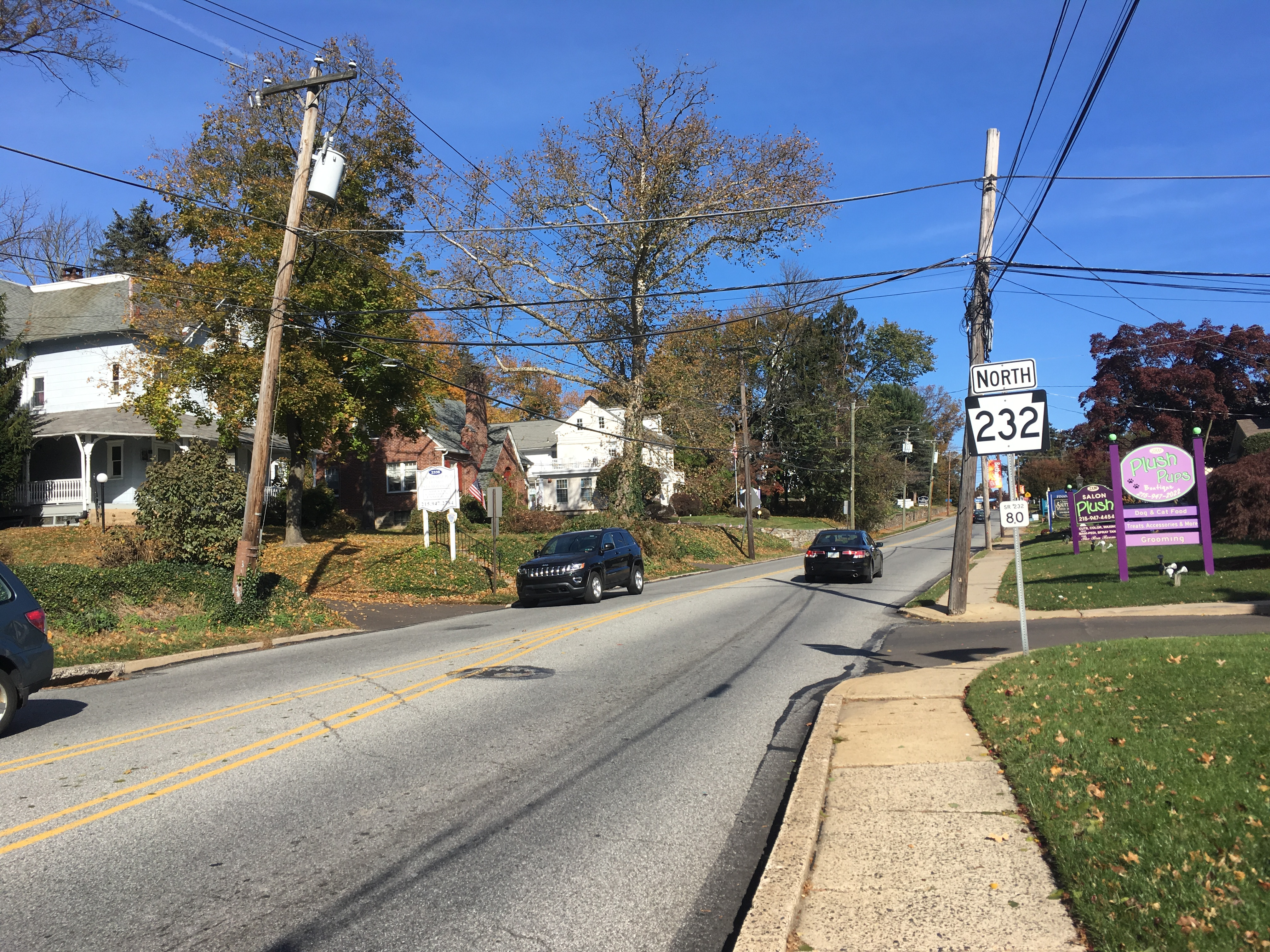 Northbound Pennsylvania Route 232 (Huntingdon Pike) past the intersection with Pennsylvania Route 63 (Welsh Road/Philmont Avenue) in Bethayres, Pennsylvania.